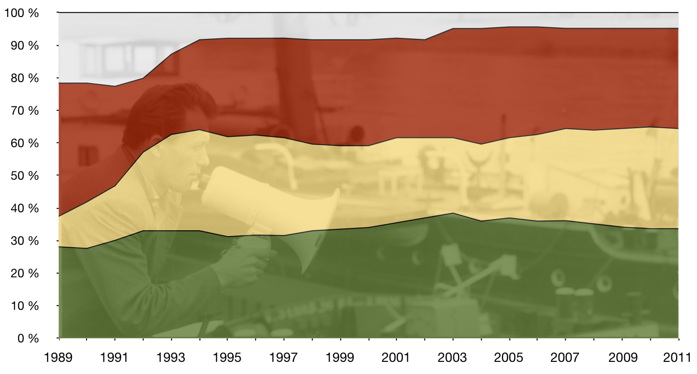 press freedom 1989-2009 (updated to 1989-2011), own graph based on data from green=free, yellow=partly free, red=not free, grey=no data